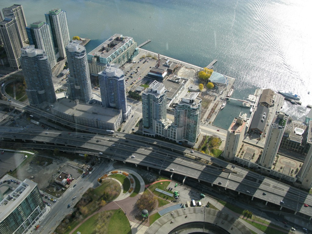 The Gardiner Expressway directly below the CN Tower